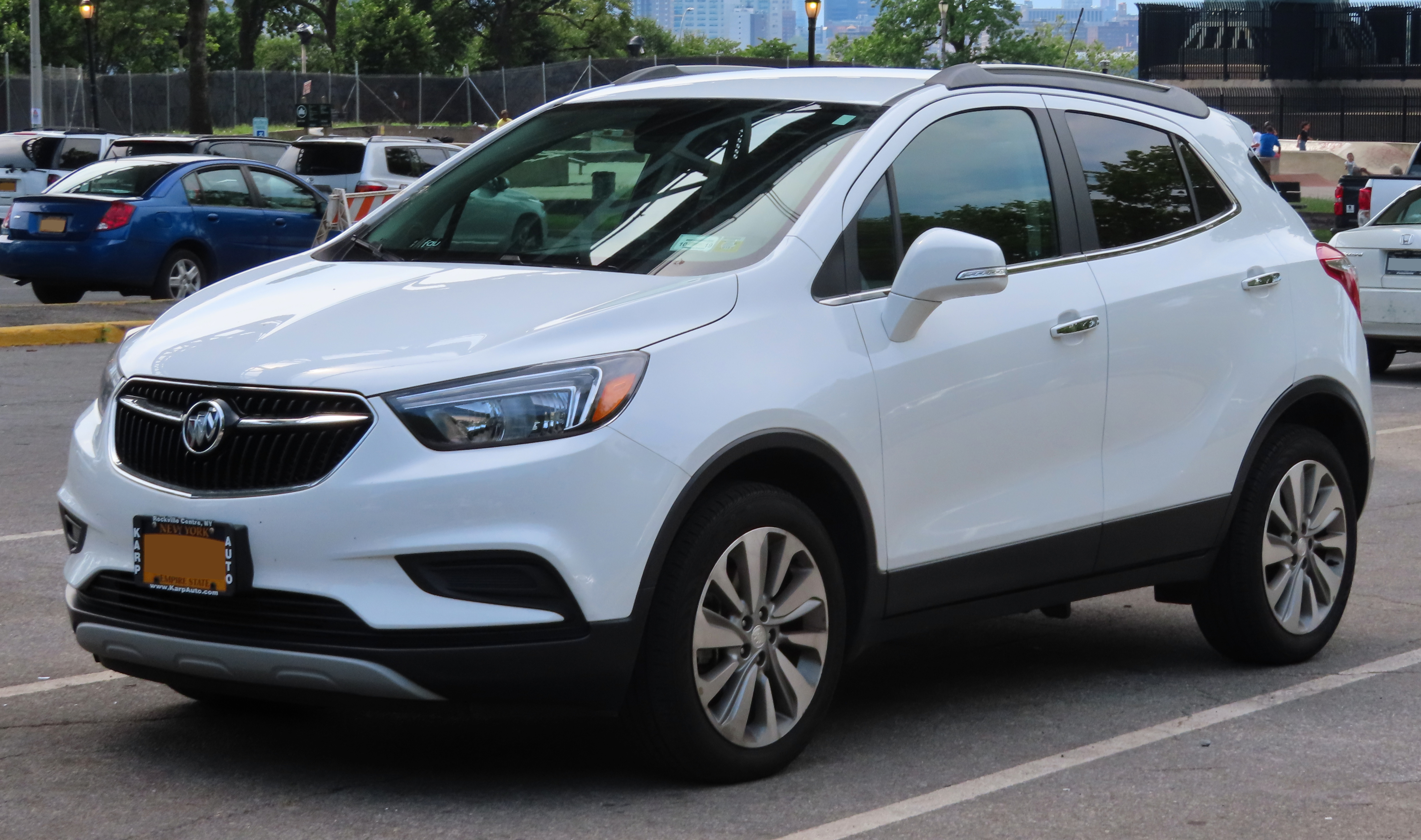 A 2017 Buick Encore photographed at Astoria Park, in Astoria, Queens, New York, USA